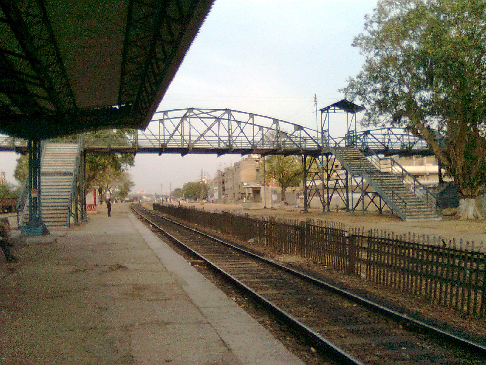 Drigh Road railway station, Karachi, Pakistan